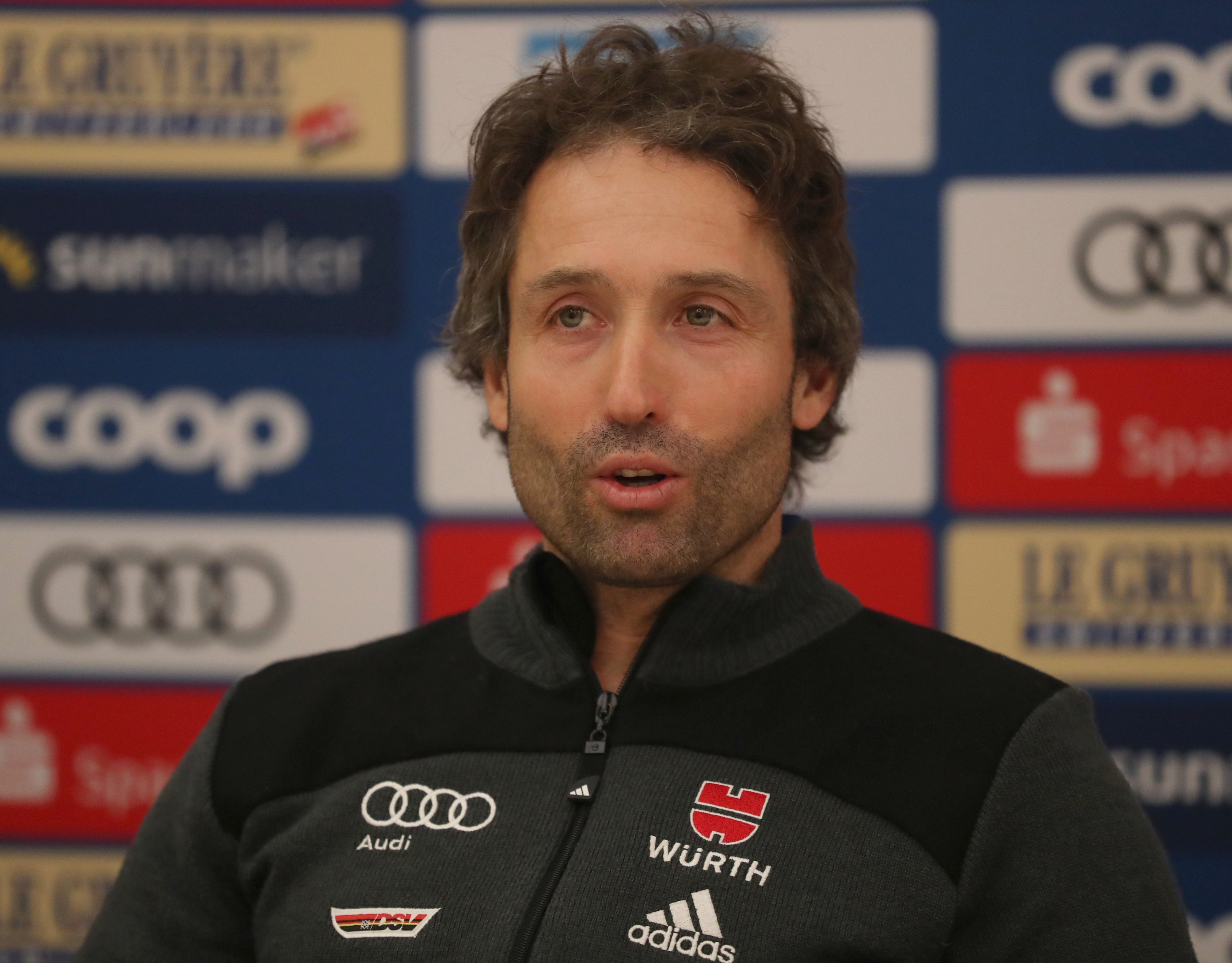 Press conference at the FIS Cross-Country World Cup World Cup Dresden 2019